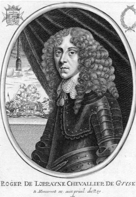 Roger de Lorraine, chevalier de Guise (1624-1653) by Balthasar Moncornet (1600-1668).